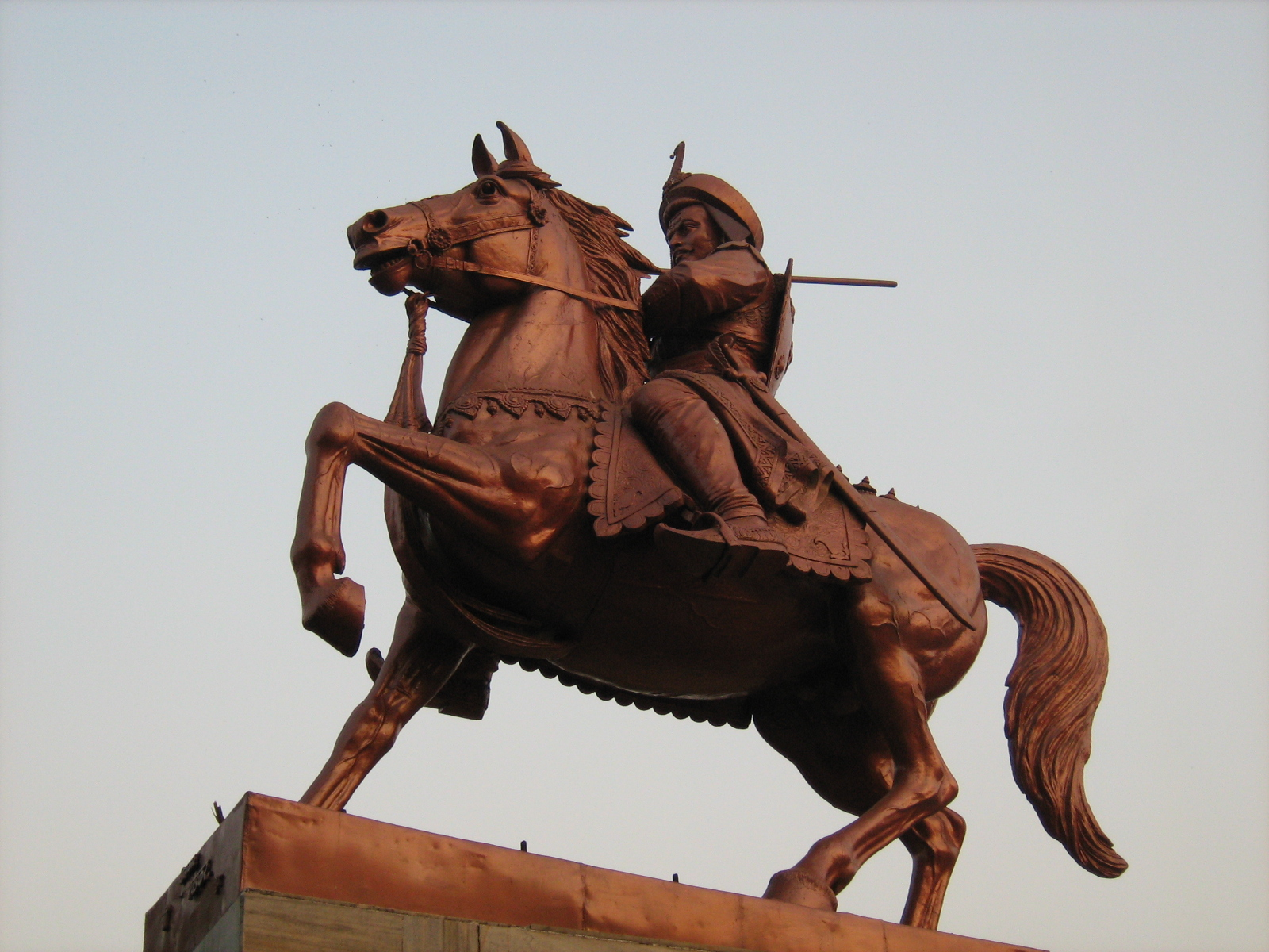 Statue of Bajirao Peshwa outside Shaniwar Wada